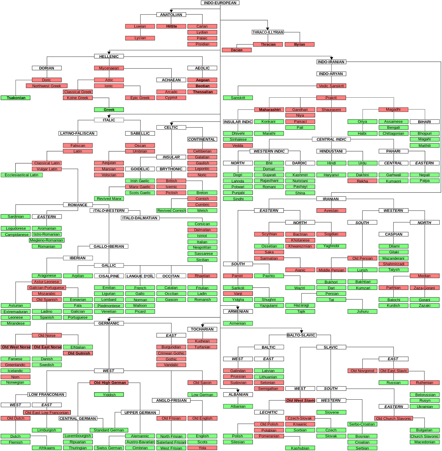 Partial tree of Indo-European languages. Branches are in order of first attestation; those to the left are Centum, those to the right are Satem. Languages in red are extinct. White labels indicate categories / un-attested proto-languages.